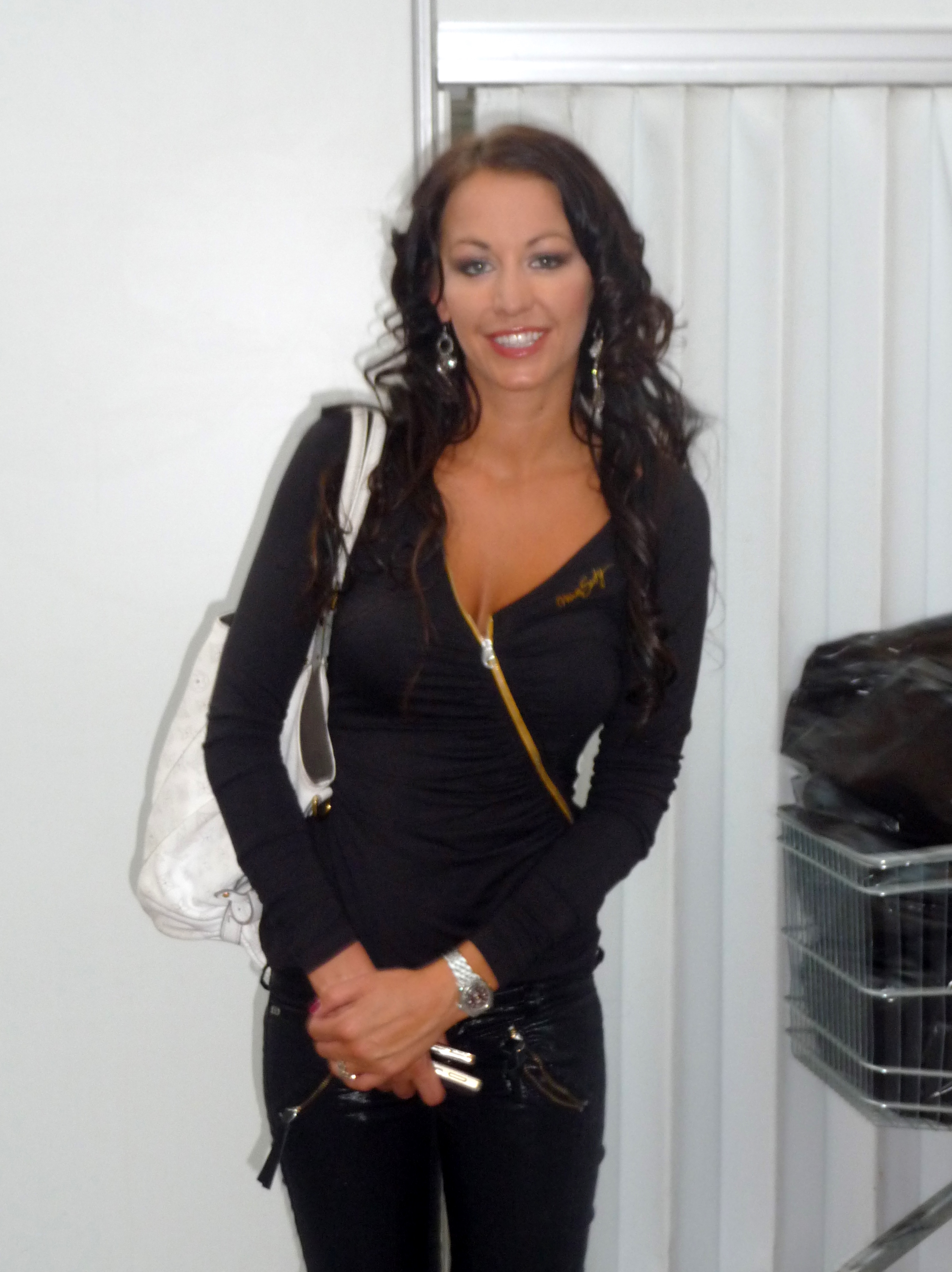 Agáta Hanychová, Olympia Fashion Show 2010